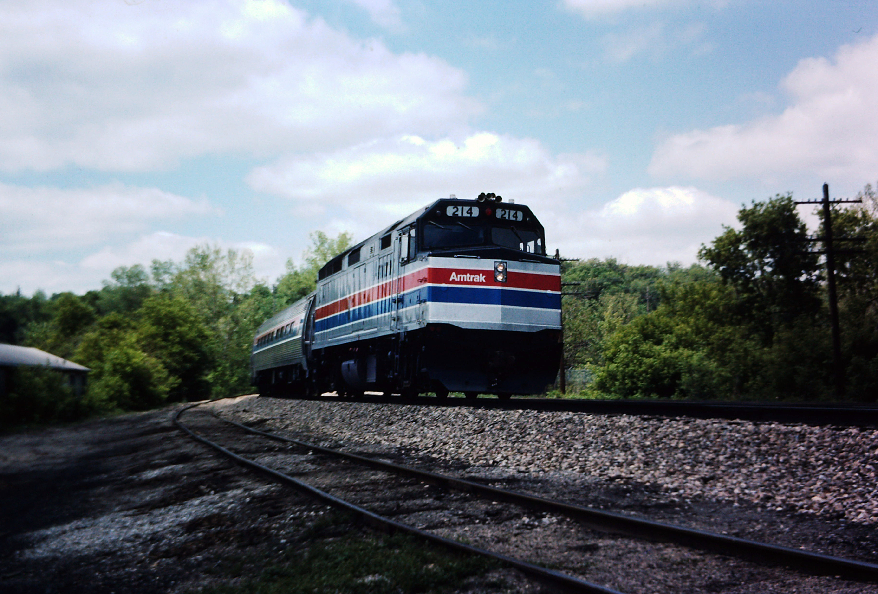 Amtrak's Wolverine at Ann Arbor, Michigan. The train is led by EMD F40PH #214 and consists of Amfleet cars.